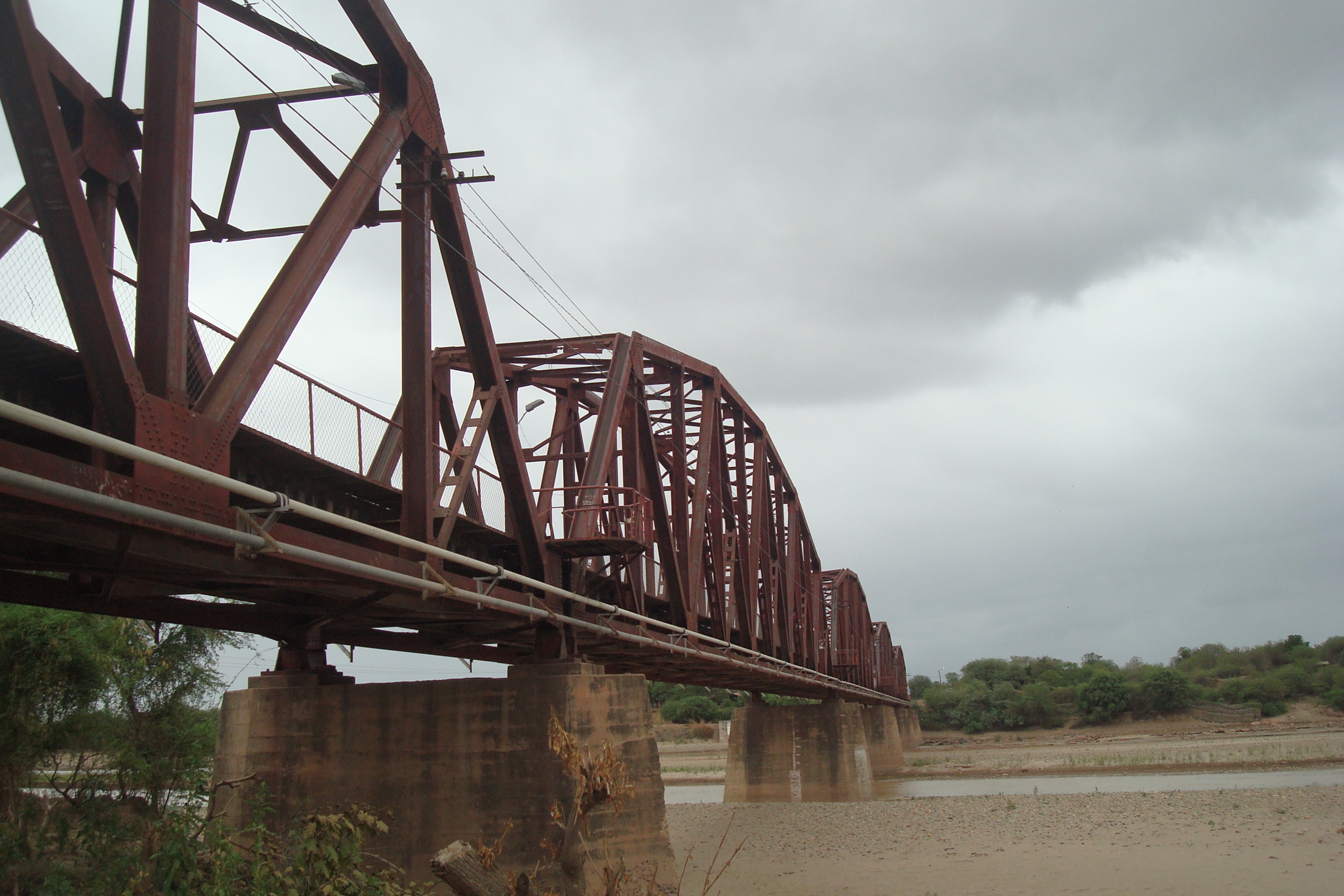 Fotografia de el puente ferroviario de Villa Montes